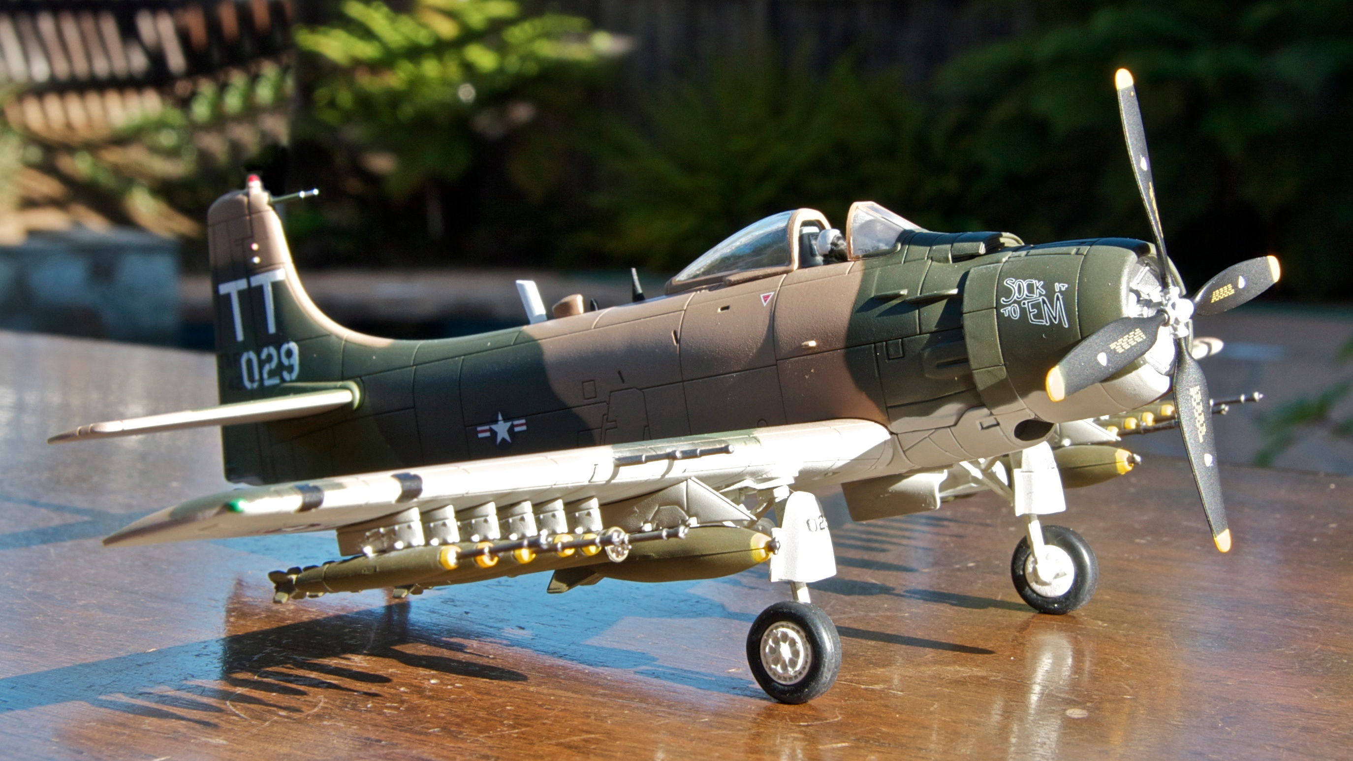 Photograph of a die cast model of Douglas A-1J Skyraider "Sock It To 'Em" of the United States Air Force 602nd Special Operations Squadron flow by George Marrett and others. This 1:72 scale model was made by Hobby Masters Ltd.